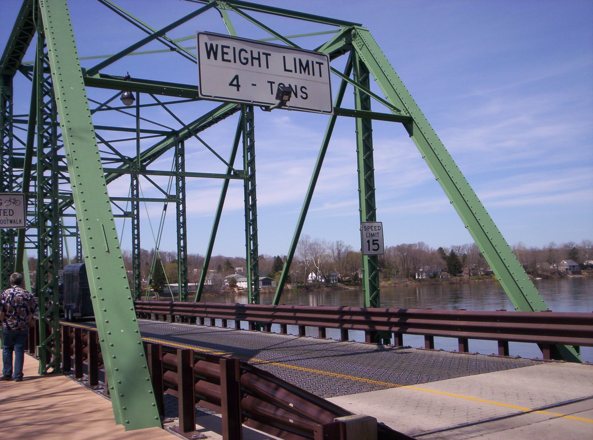 New Hope-Lambertville Bridge-New Jersey approach